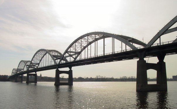 Rock Island Centennial Bridge in 11/06